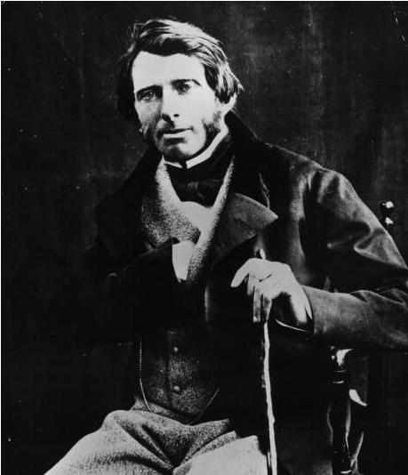 John Ruskin, circa 1870.